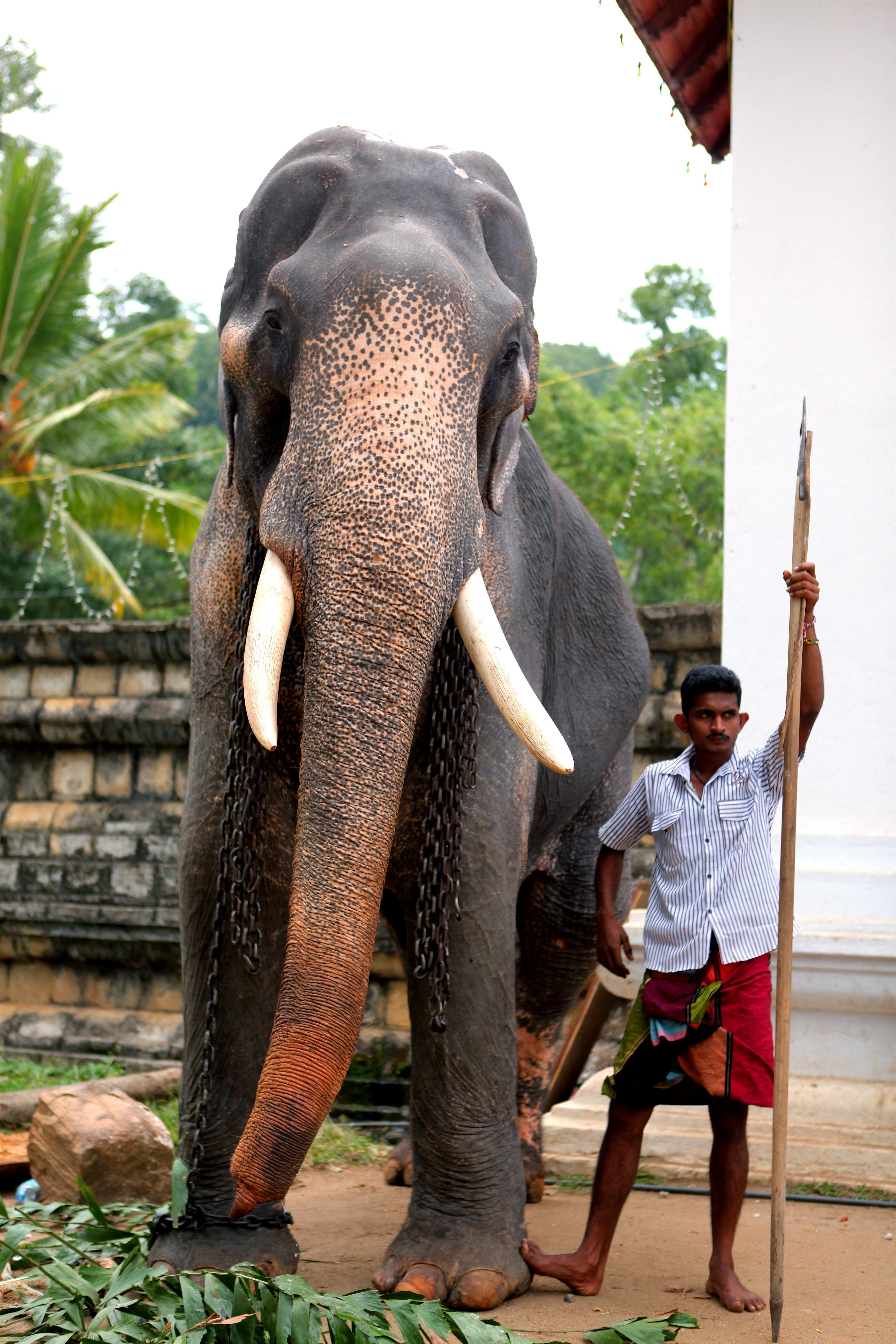 For centuries, elephants have played an important role in Sri Lanka. Here workers prepare an elephant for the island's largest Buddhust festival, the Perahera in Kandy.